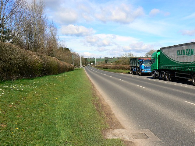 A371 near Bath and West showground, Shepton Mallet The main road crosses the square from north to south. This view is facing north. The entrance to the showground is at the left of the road at the centre of the image.